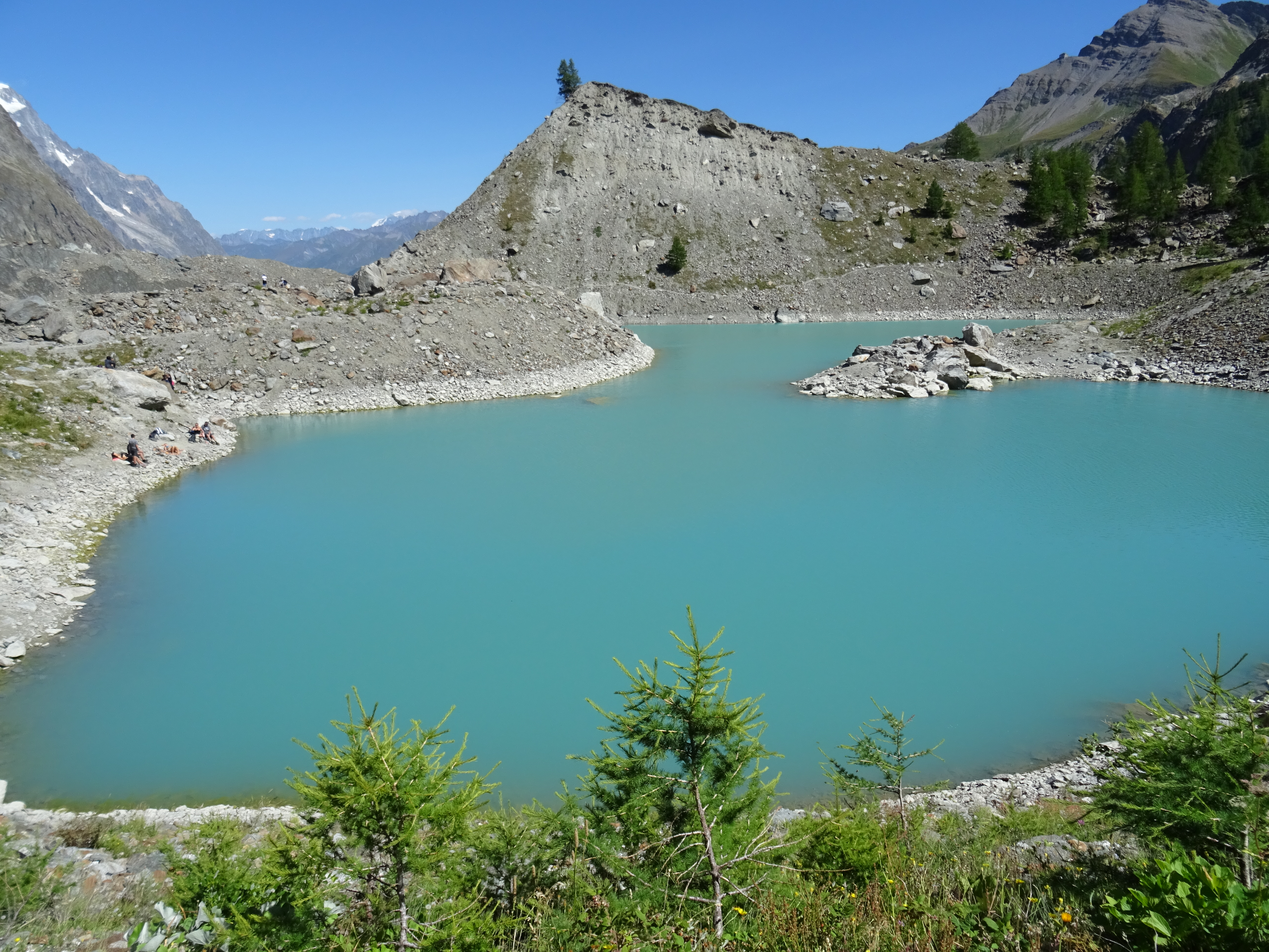 Lake Miage in august 2018. It was divided into two ponds, one blue colored and the other grey colored because of the debris falling into it from the glacier